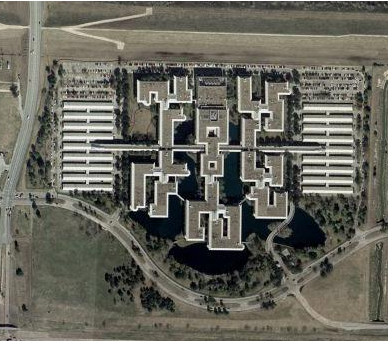 USGS orthophoto of ConocoPhillips headquarters, Texas